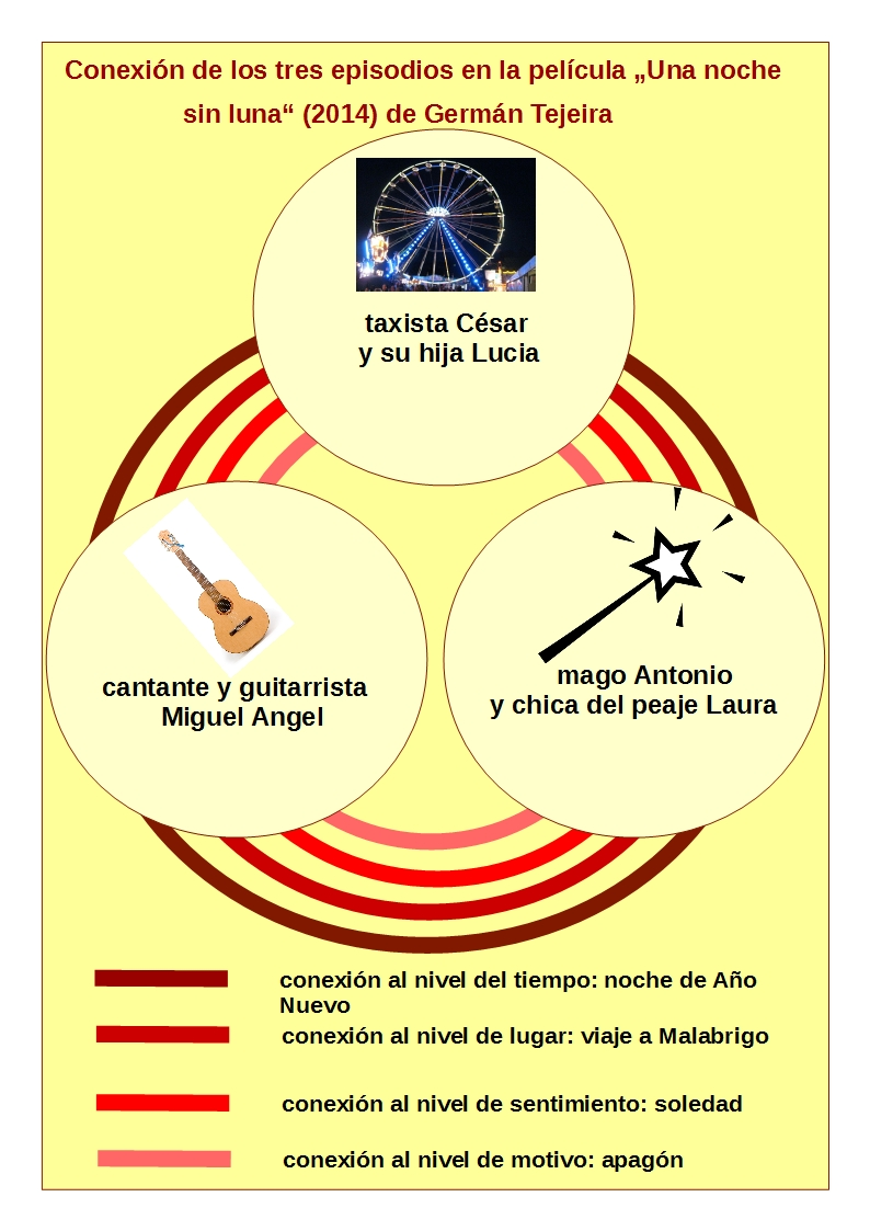 Infographics explaining the connection between the three episodes in the movie "Una noche sin luna" (Spanish language)